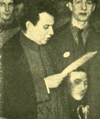 Photo of Grigory Zinoviev